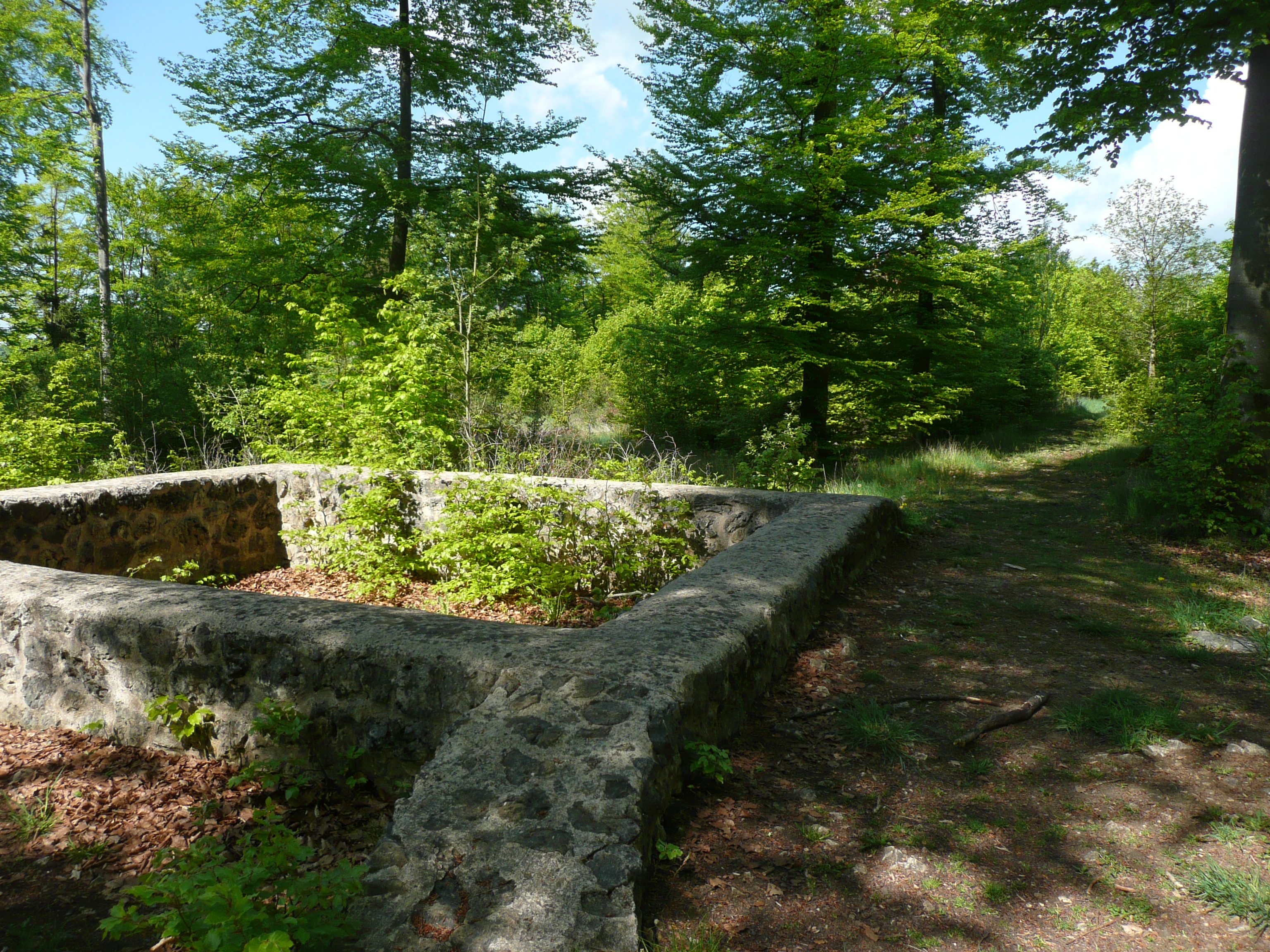 Foundation of the watch tower 14/78 of the Raetian Limes on the Pfahlbuck near Kipfenberg seen from SE. This is a photograph of an archaeological site.